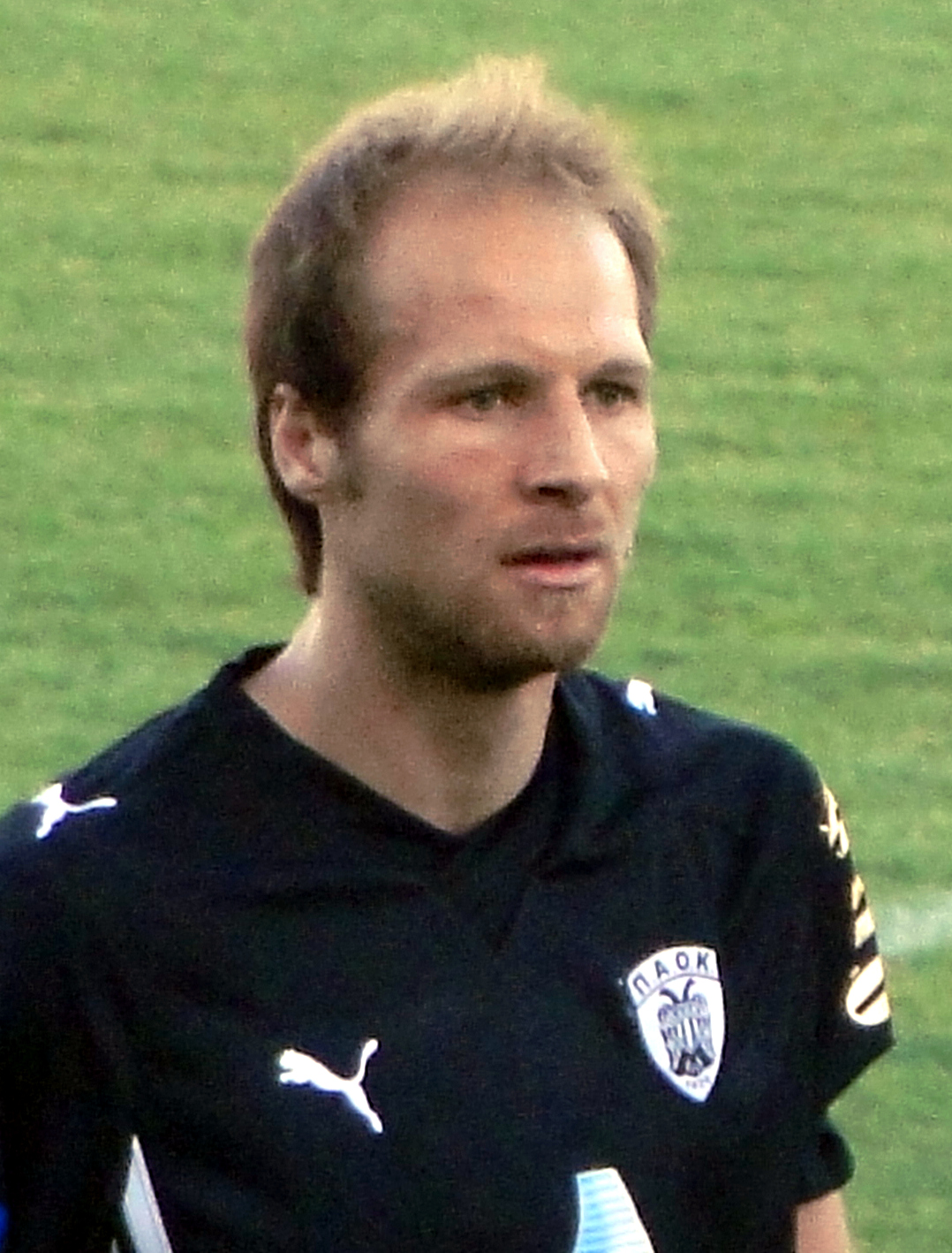 Muslimovits playing for PAOK, 2010